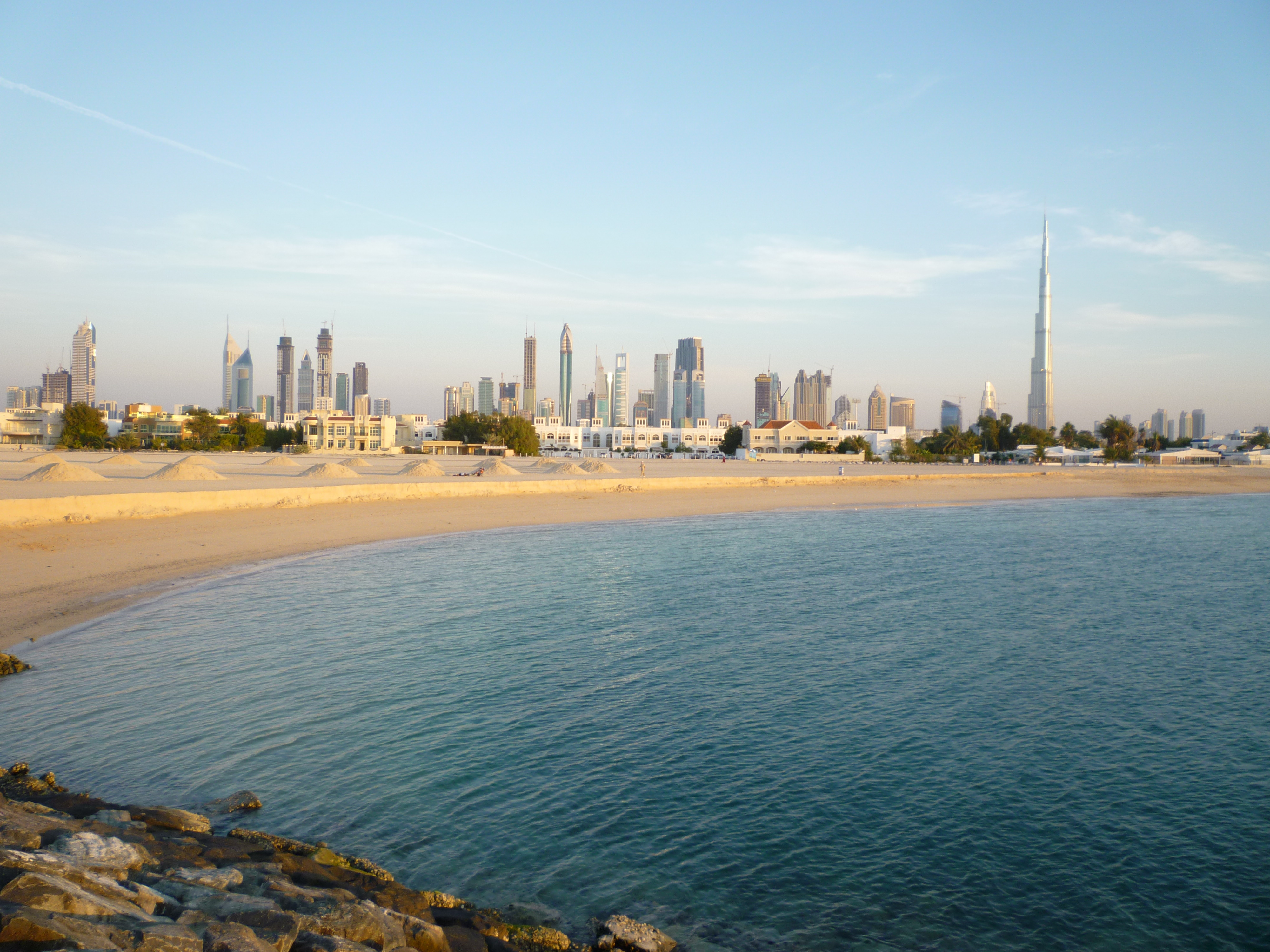 View of Dubai just before sunset.